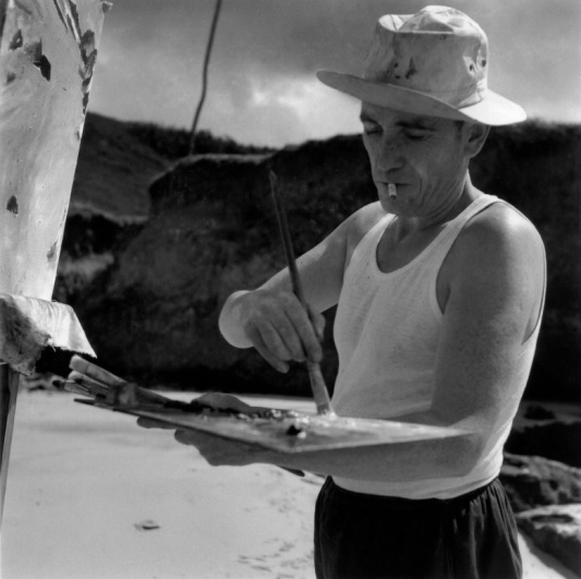 Pintor, escultor, desenhista, marinheiro